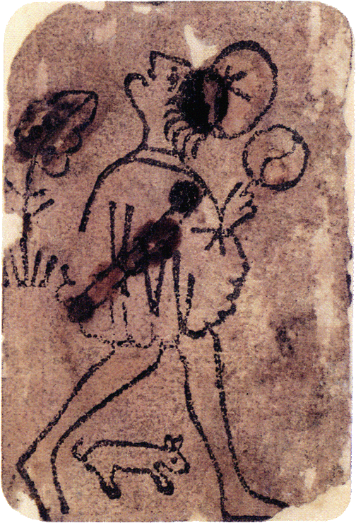 the knave of coins of the "Italy 2" (Italia 2) playing cards deck (also: Baraja a la morisca, Morisca deck, Moorish playing cards), 1390-1410 circa. Modern Replica.